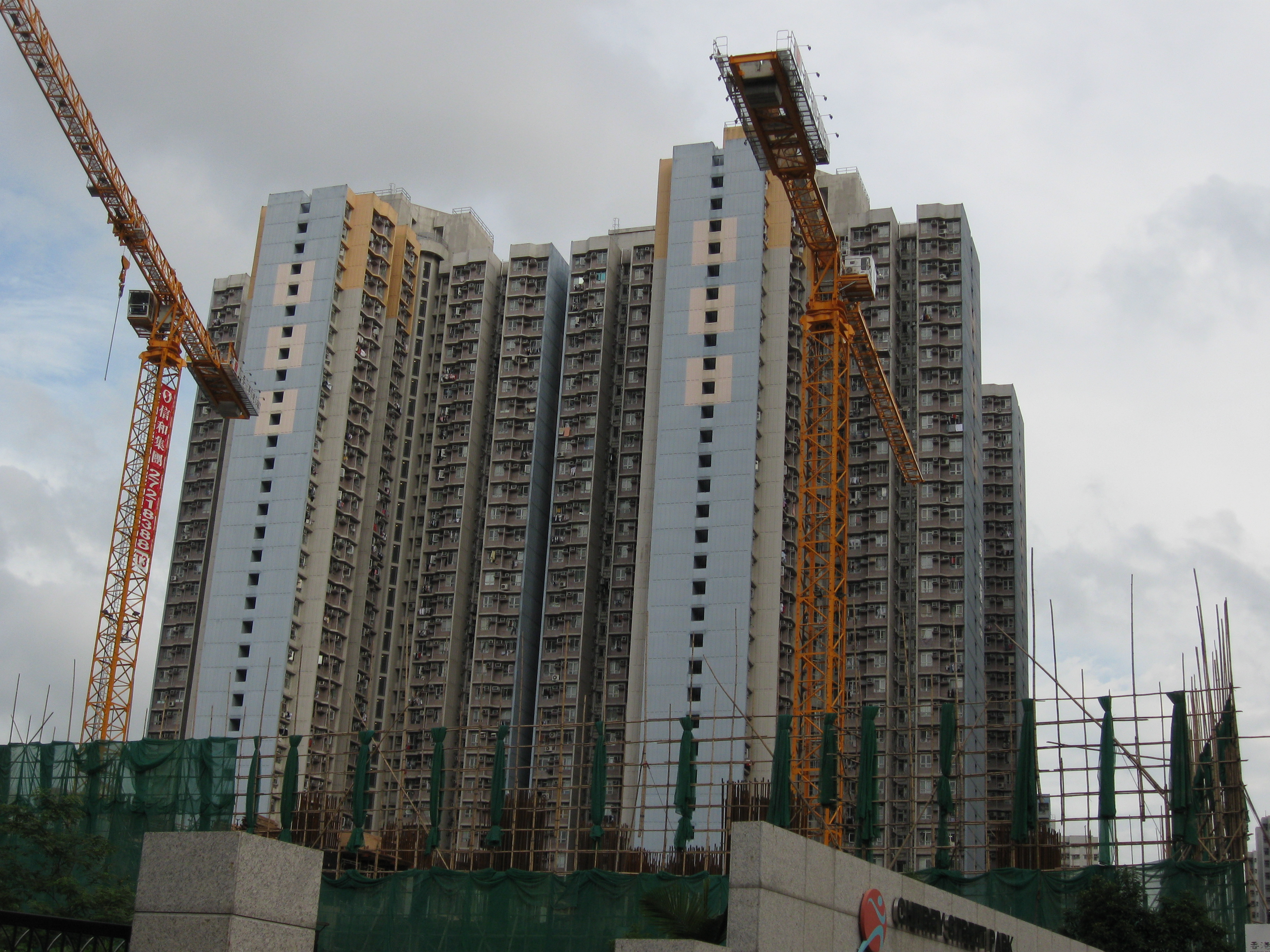 Hoi Wen House and Hoi Lam House, Hoi Fu Court, Mong Kok West, Kowloon, Hong Kong 中文（香港）: 香港九龍旺角(西)海富苑海韻閣及海嵐閣